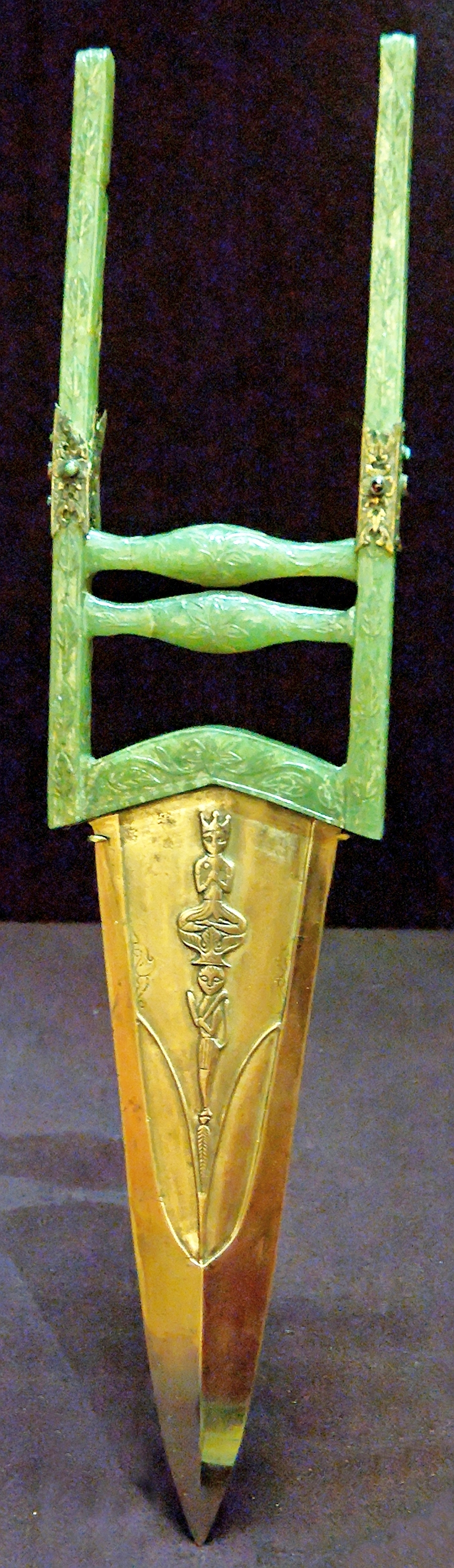 Katar decorated with figures of divinities. India, Mughal Dynasty, 17th-18th century. Blade: steel with relief decoration; hilt: jade and steel inlaid with gold and semi-precious stones.